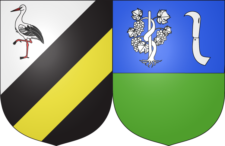 Coat of arms Budapest District XXII